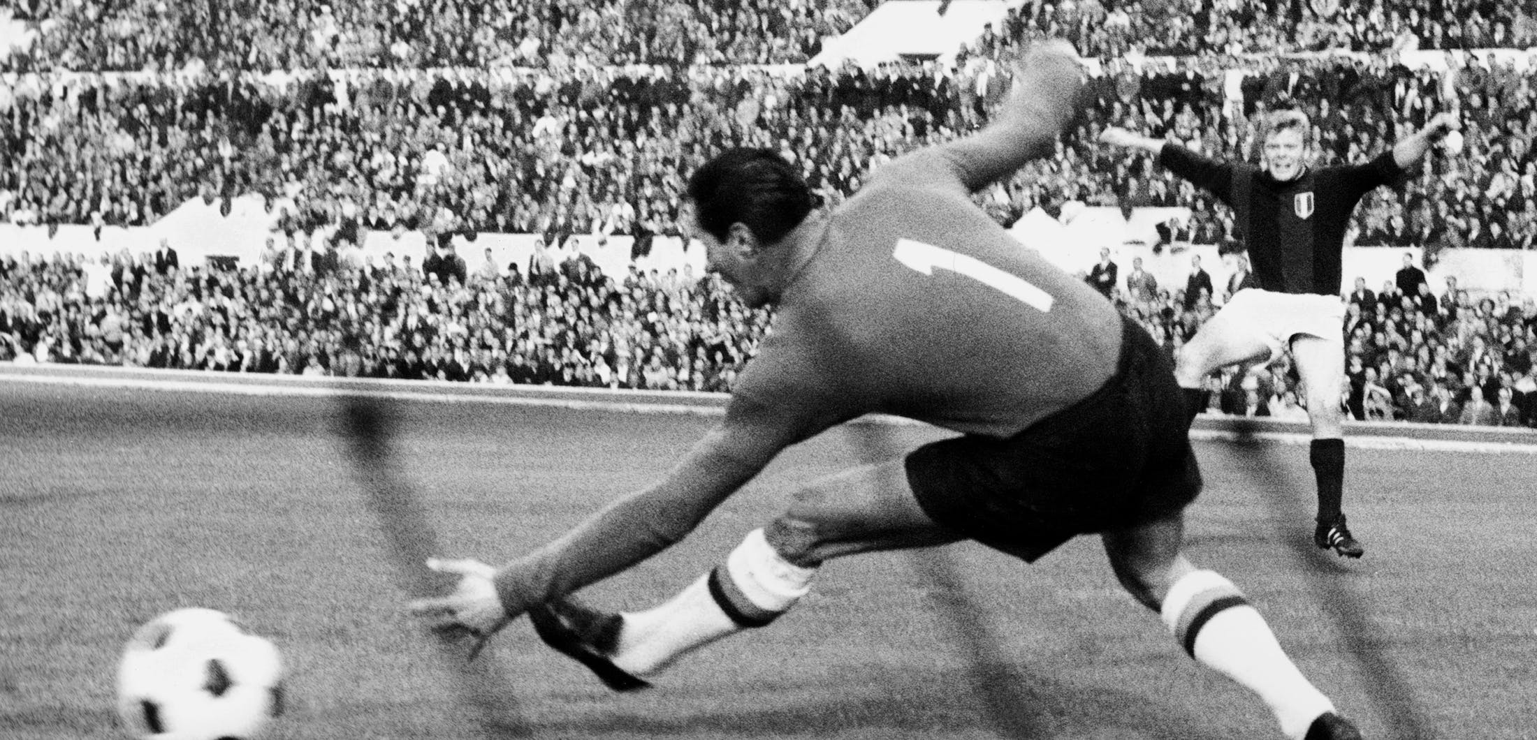 Rome, Olympic Stadium, November 8, 1964. A.S. Roma — Bologna F.C. 1-1, Italy Championship 1964–65 Serie A, 8th round. Bologna's winger Helmut Haller (in the background) beats Roma's goalkeeper Fabio Cudicini (no. 1) and scores the first goal of the match.